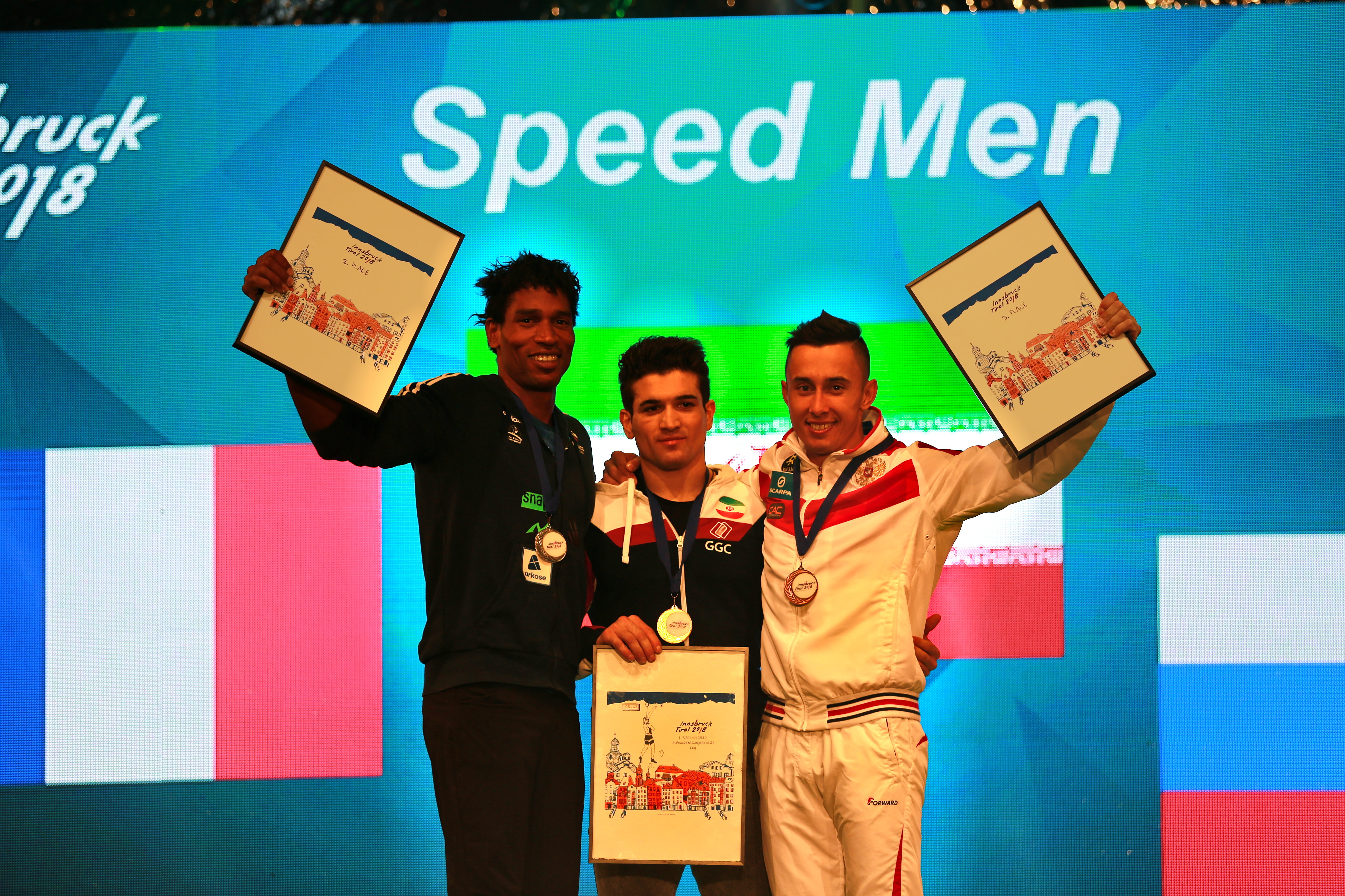 Climbing World Championships 2018 Speed Final Man winners